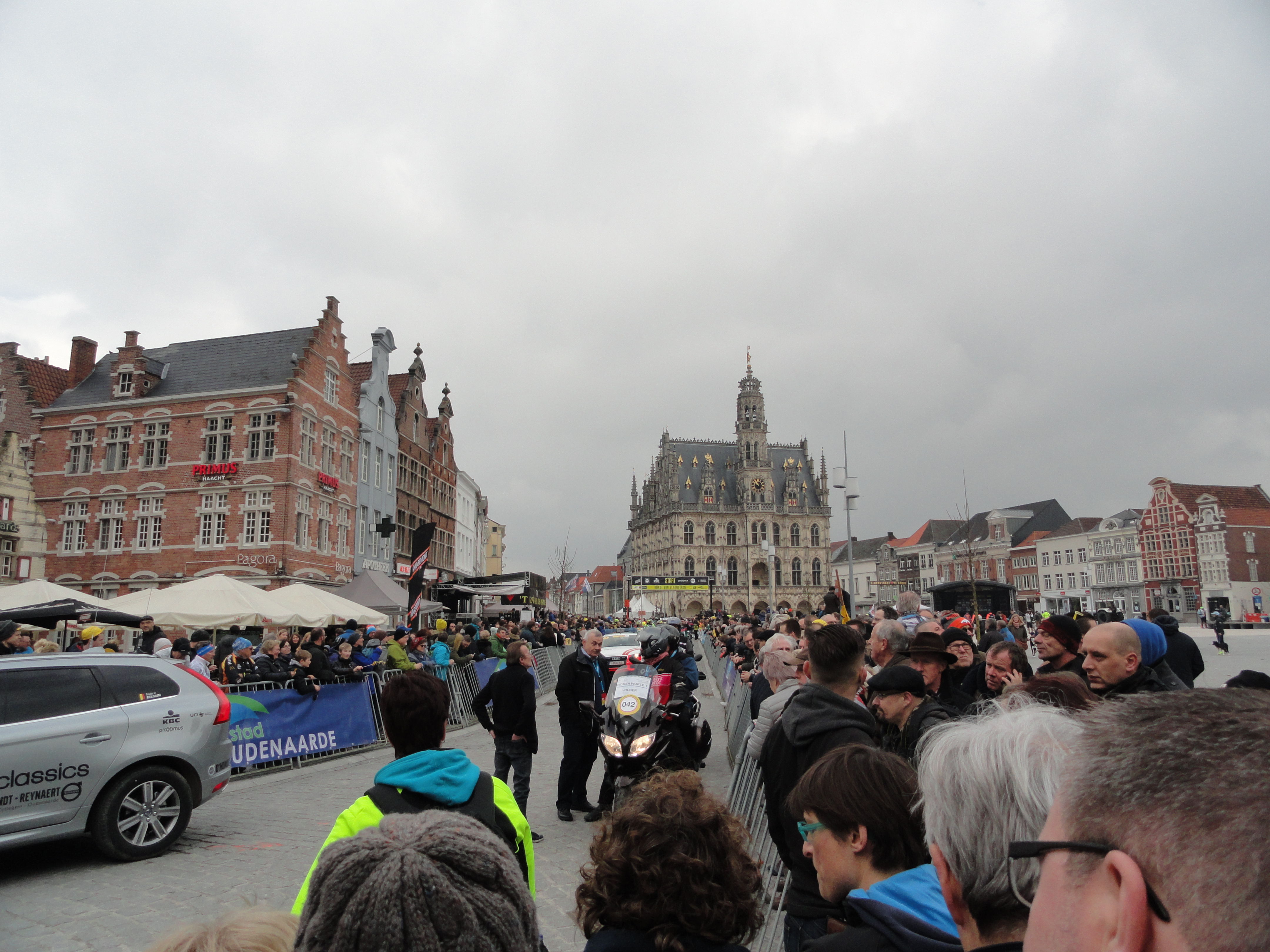 Start of the women at Ronde van Vlaanderen Vrouwen 2018